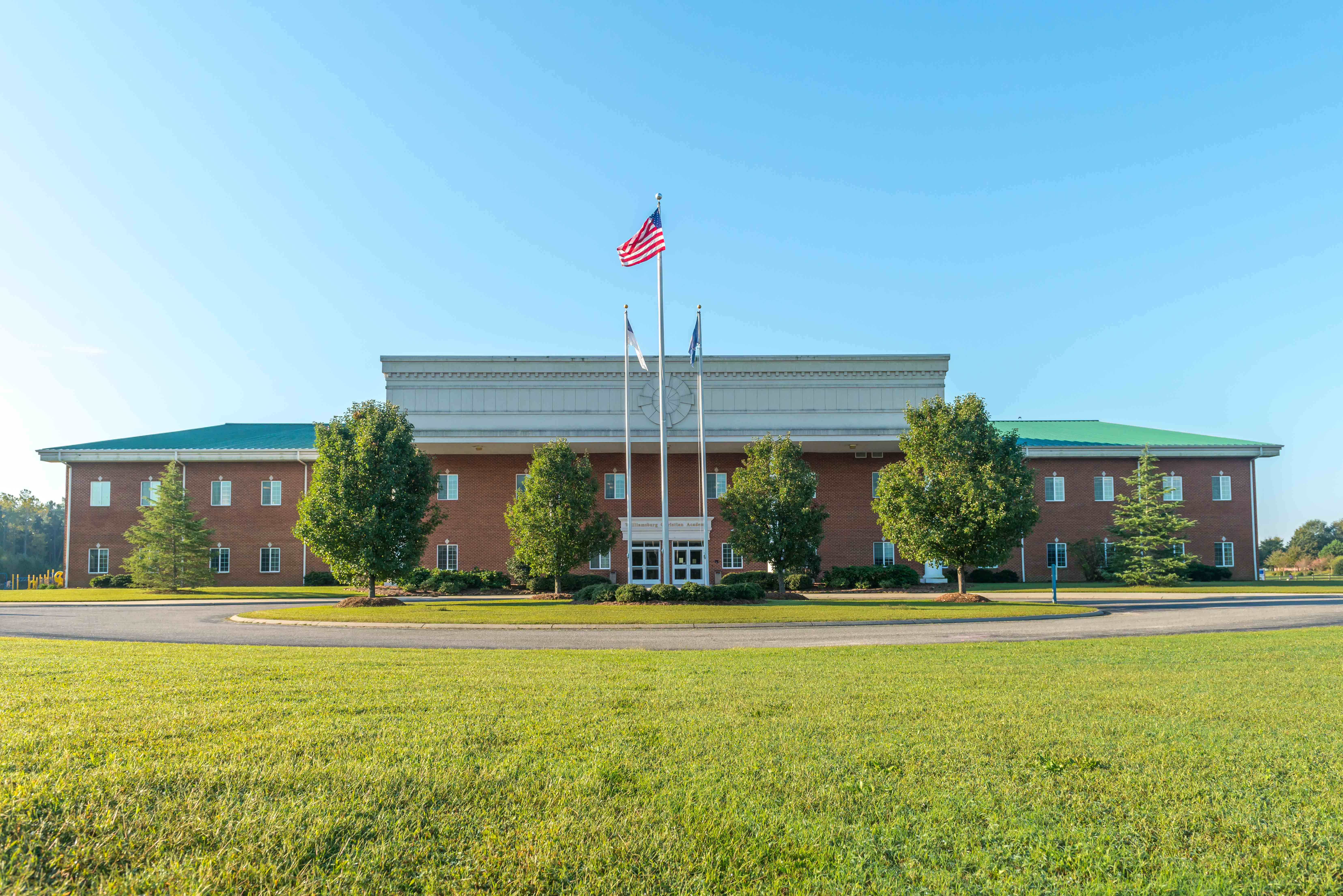 This is a full-width photo of Williamsburg Christian Academy in Williamsburg, VA